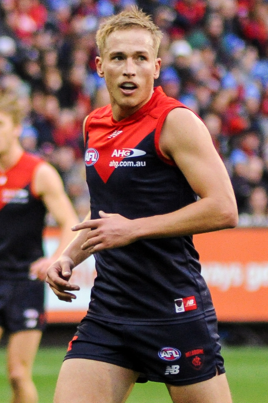 Bernie Vince during the AFL round twelve match between Melbourne and Collingwood on 12 June 2017 at the Melbourne Cricket Ground in Melbourne, Victoria.